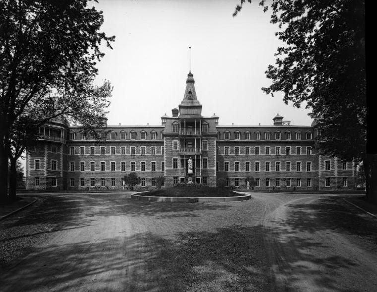 Photograph, Longue Pointe Asylum, Montreal, QC, 1911, Wm. Notman & Son, Silver salts on paper - Gelatin silver process - 18 x 25 cm